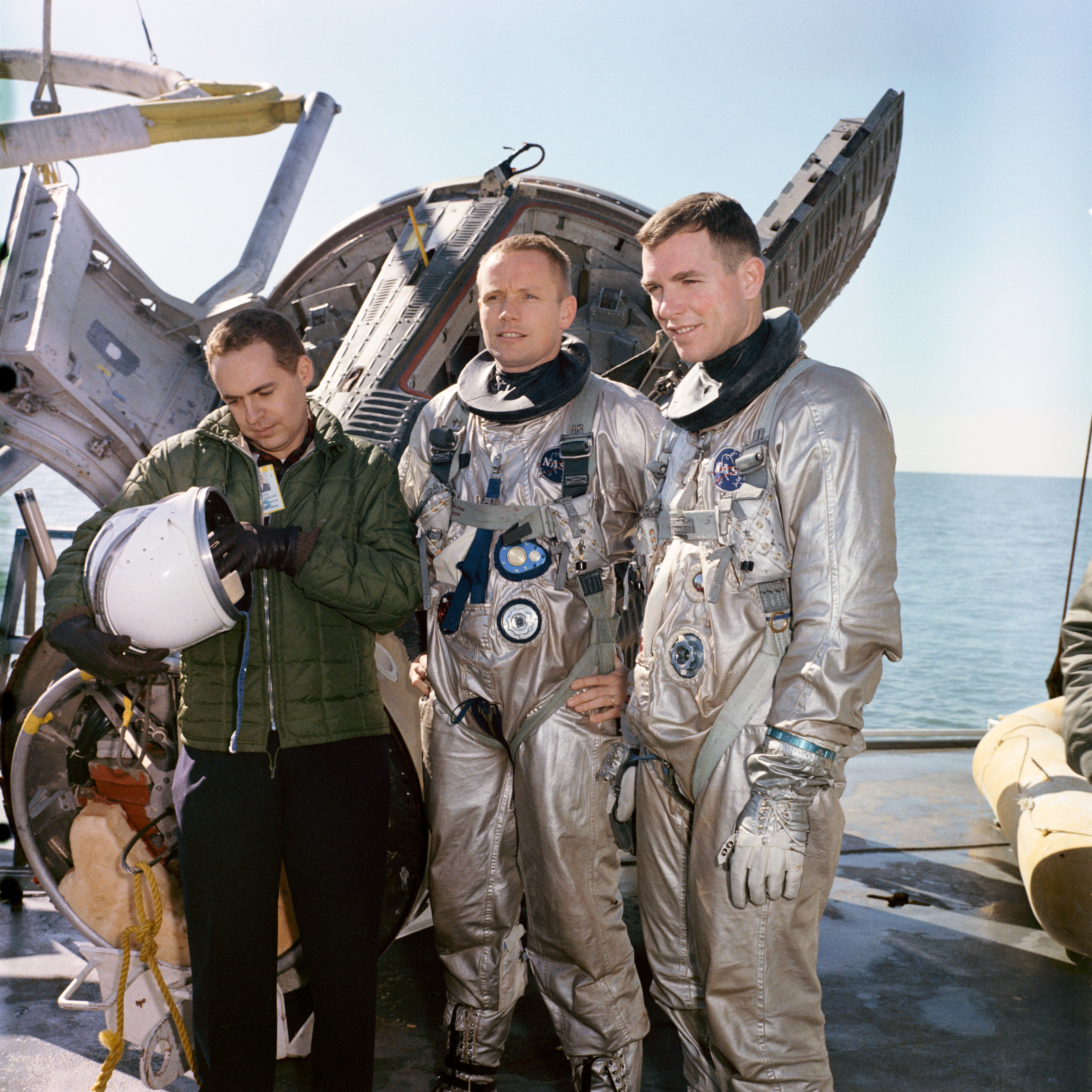 Description (1965) The Gemini-8 Astronauts David B. Scott (right) and Neil A. Armstrong (center) are suited up for water egress training aboard the NASA Motor Vessell Retriever in the Gulf of Mexico.